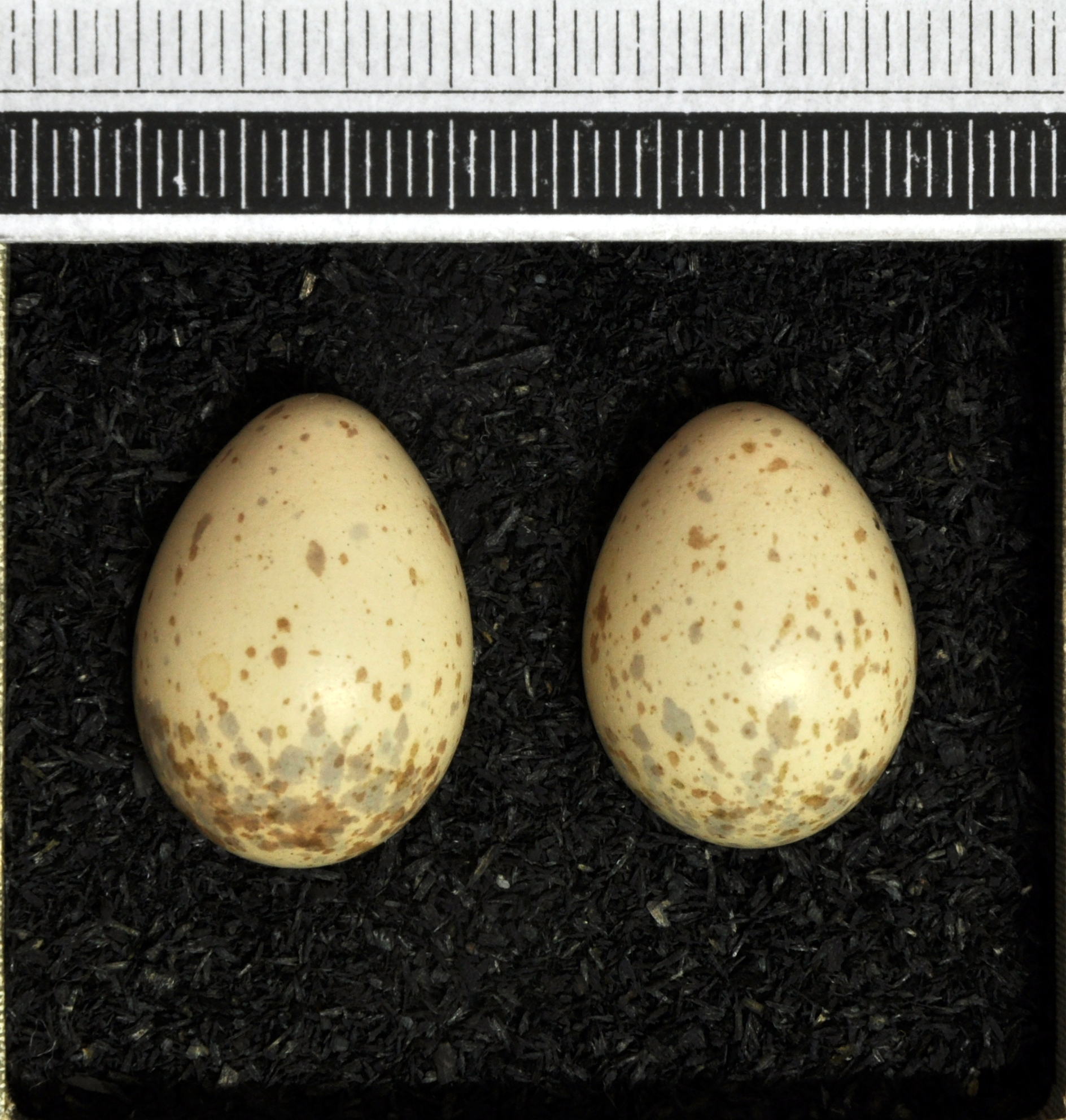 Brown shrike Lanius cristatus , egg, Coll. Museum Wiesbaden